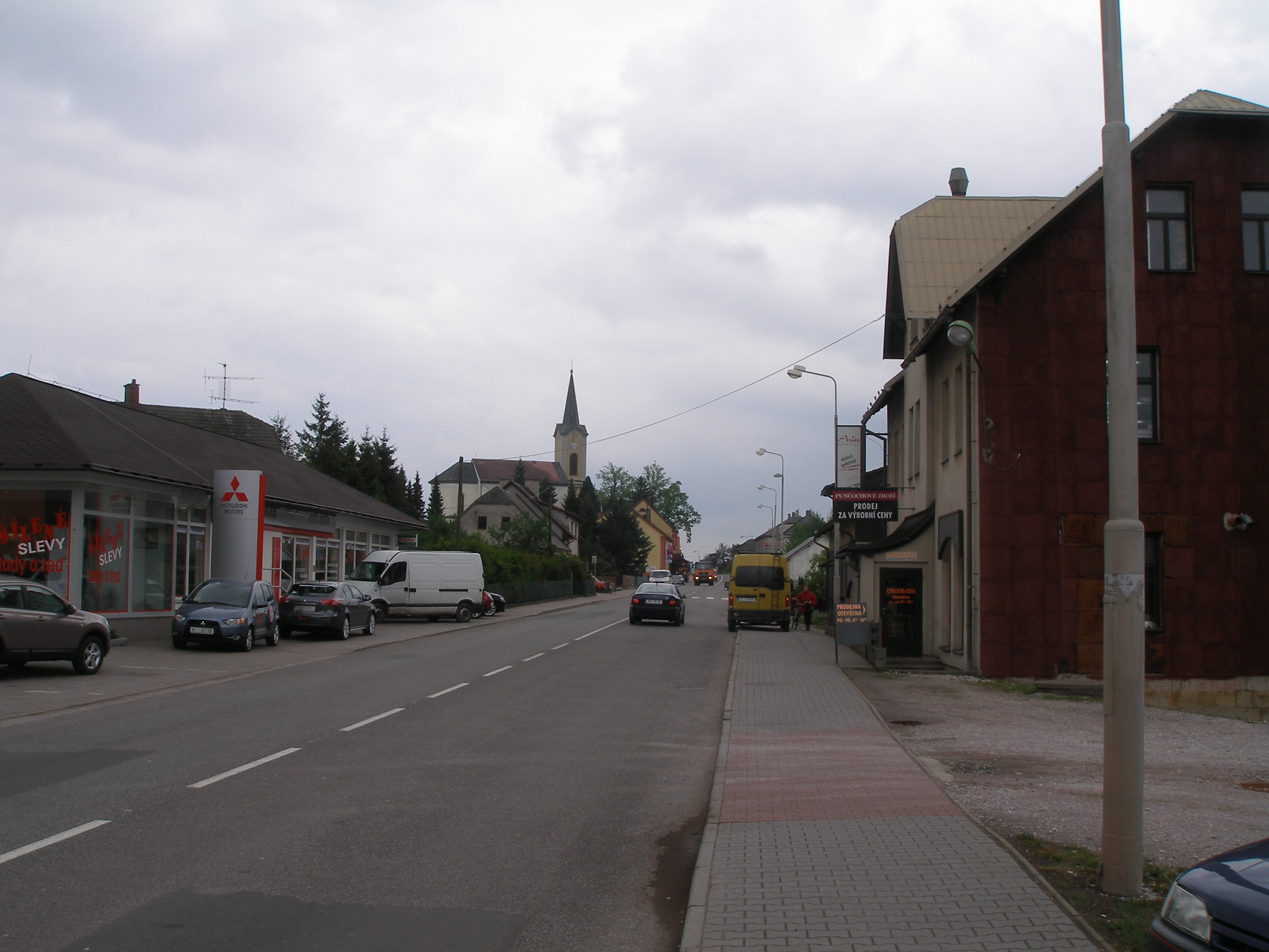 Studenec (Semily District) - the main street of the village